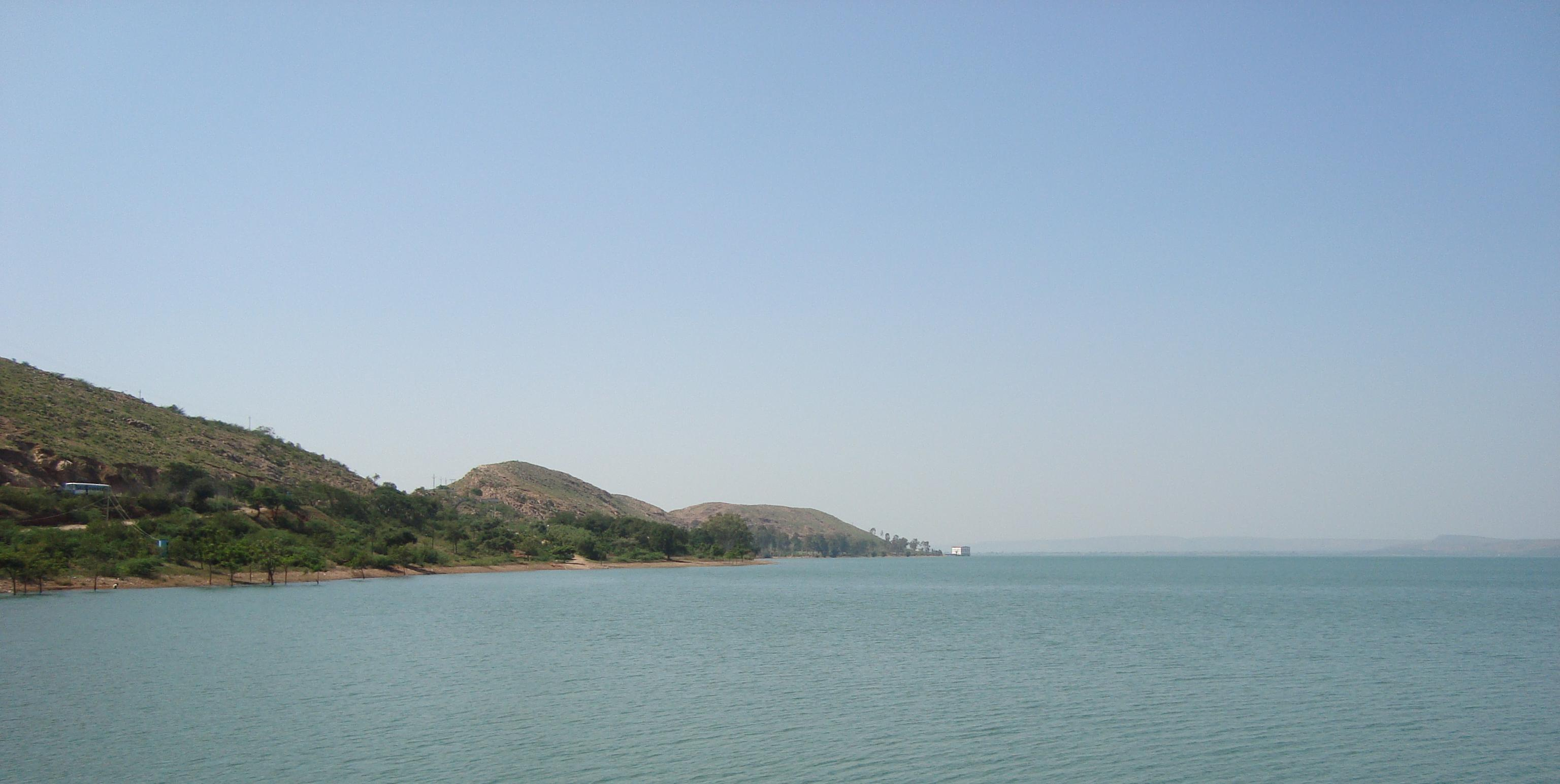 Savadatti Renuka sagara Author and Source : Manjunath Doddamani, Gajendragad, Karnataka (North), India